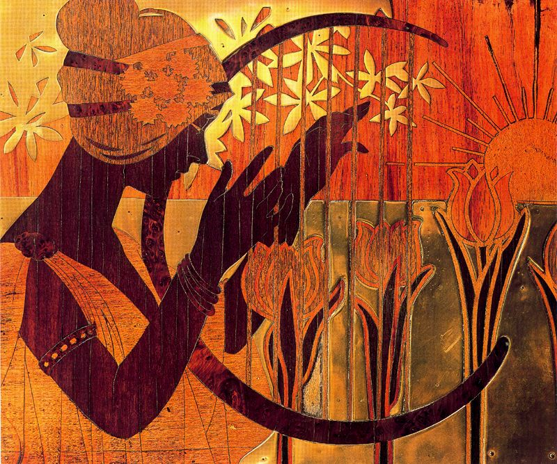 Decorative Panel at the Cercle del Liceu (Opera Theatre of Barcelona) 1900